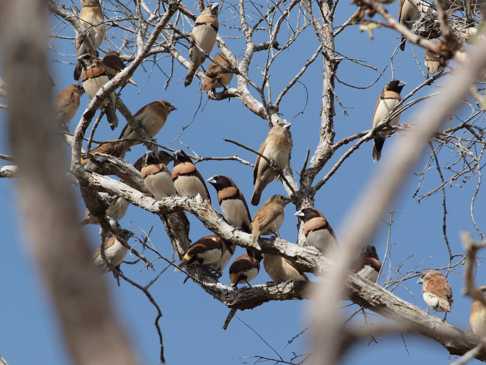 A flock of Chestnut-breasted Mannikins near Mareeba, Queensland, Australia.